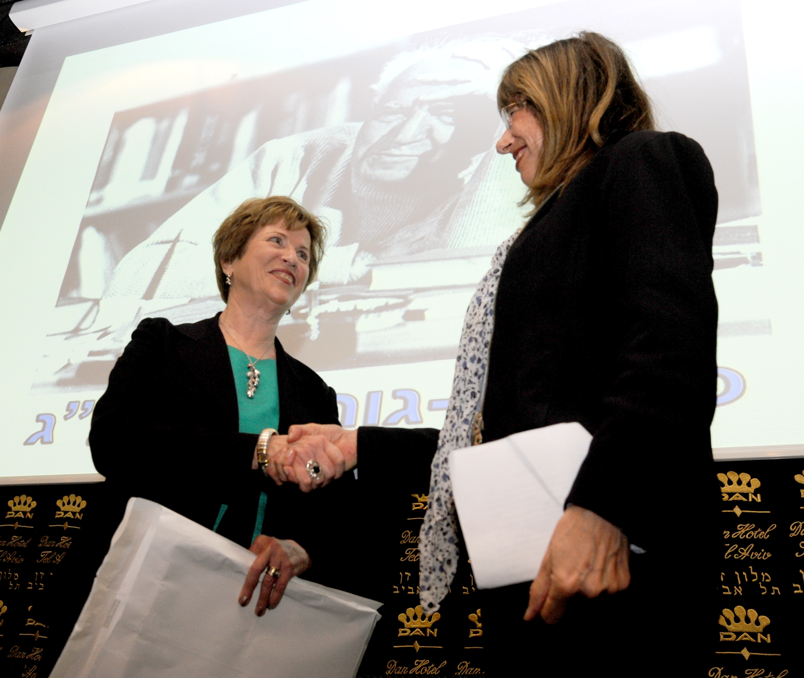 President Shimon Peres attends a ceremony for the Ben-Gurion Prize at the David Intercontinental Hotel in Tel Aviv. In the picture, Professor Dvora Hacohen (right) accepts her award.